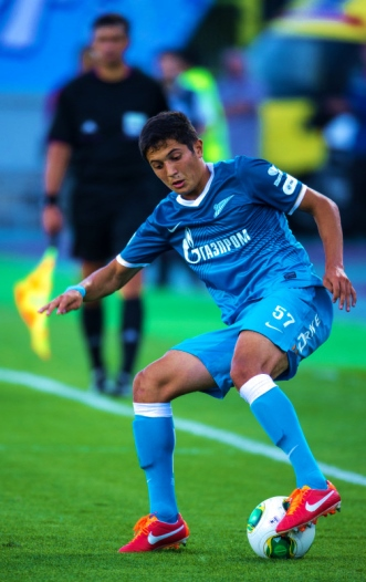 Dzhamaldin Khodzhaniyazov